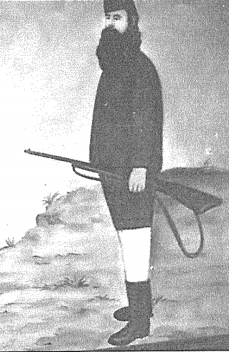 Natse Katin IMARO